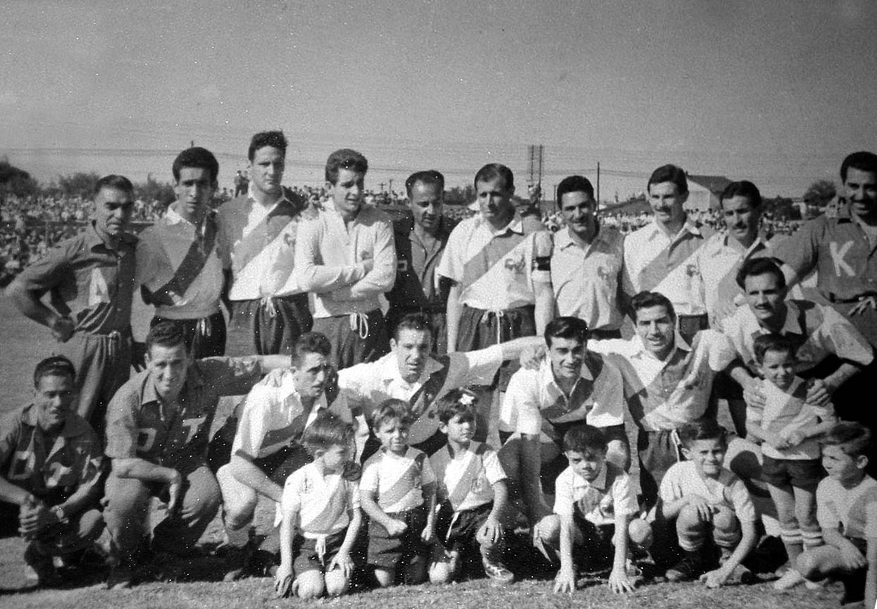 Deportivo Moron team in 1959.